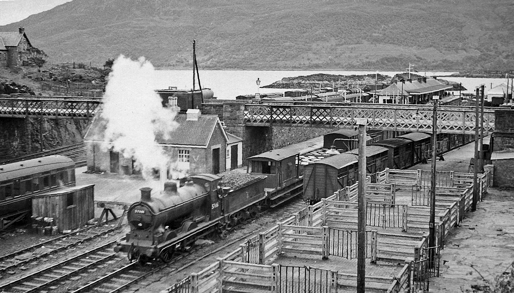 Kyle of Lochalsh Station in 1957. View SE, across the Kyle to the eastern extremity of the Isle of Skye - before the A87 was built on the line of the footbridge, let alone before the Kyleakin Bridge was built. The locomotive shunting the goods yard is ex-Caledonian 3F 0-6-0 No. 57566.